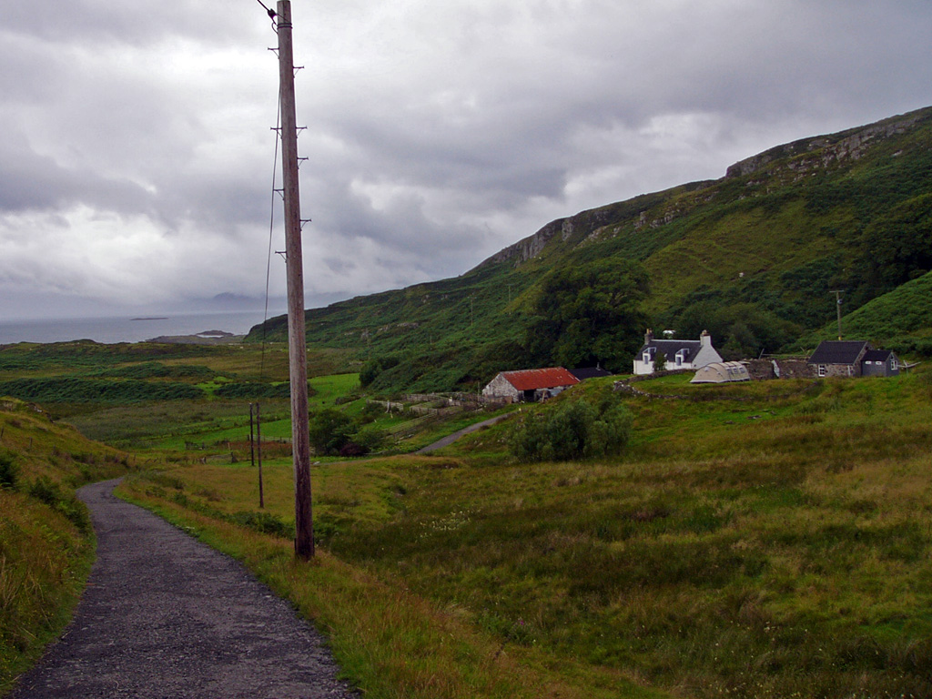 Farms and a small family-run restaurant on Kerrera.